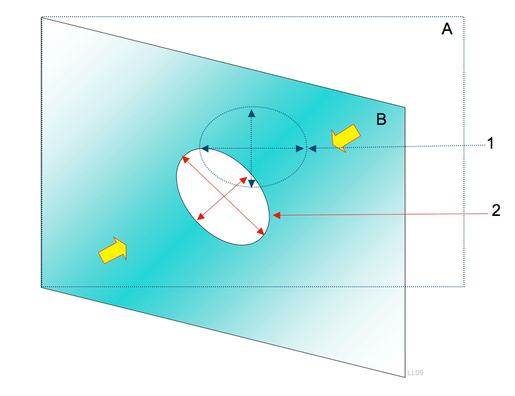 Surface buckling: A = surface without load. B= surface with load. 1 = cylindrical hole. 2 = transformation of the hole.